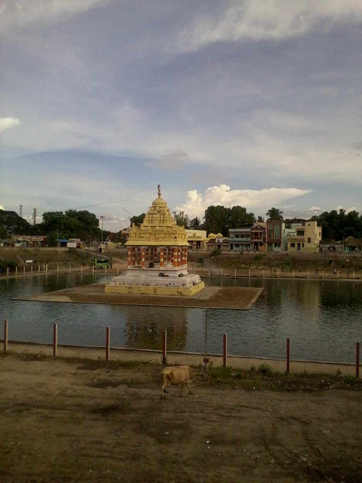 this view combines the colourful sky with the shining waters surrounding the temple